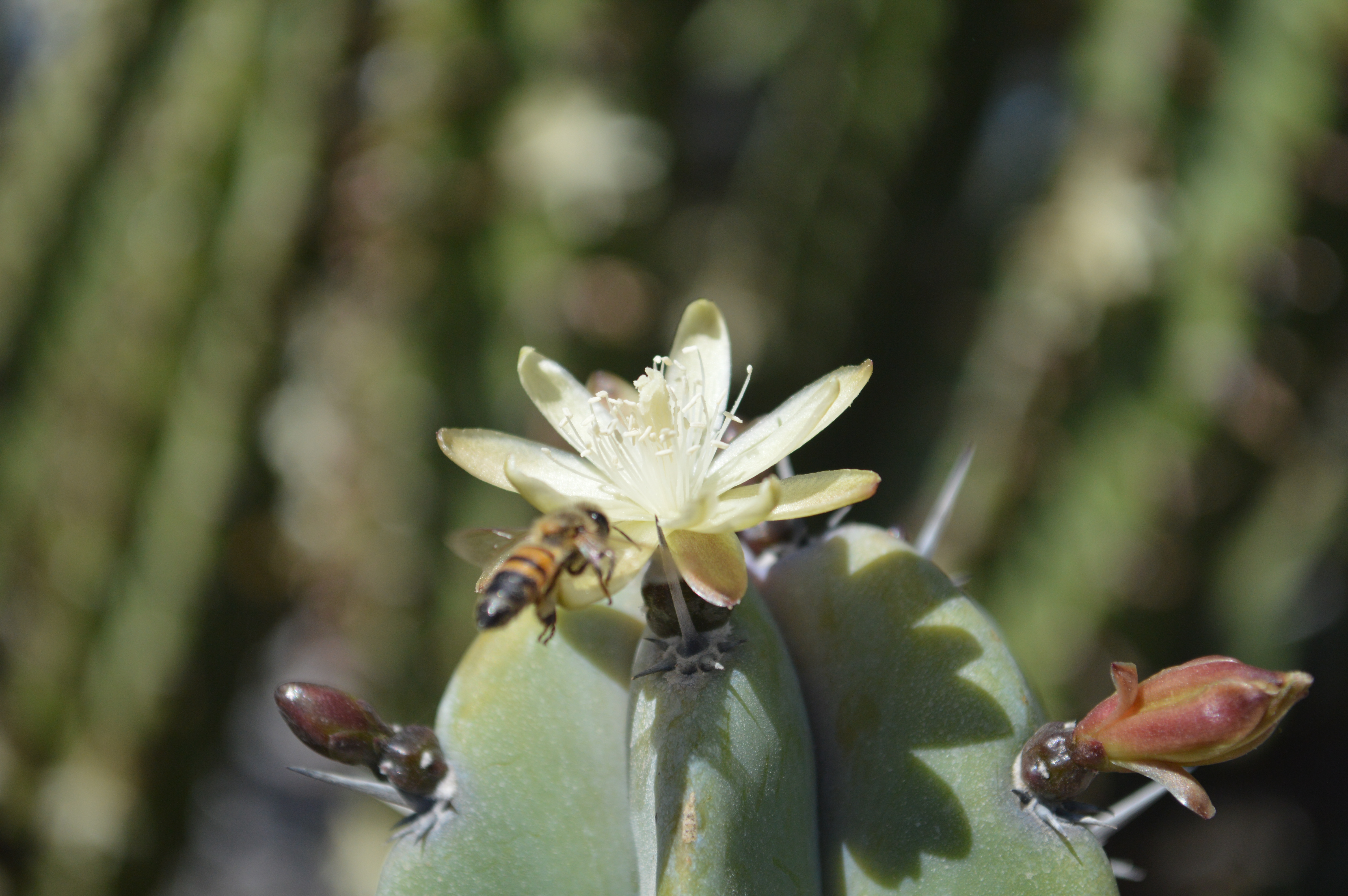 Small white cactus flower at the Tula archeological site in Mexico